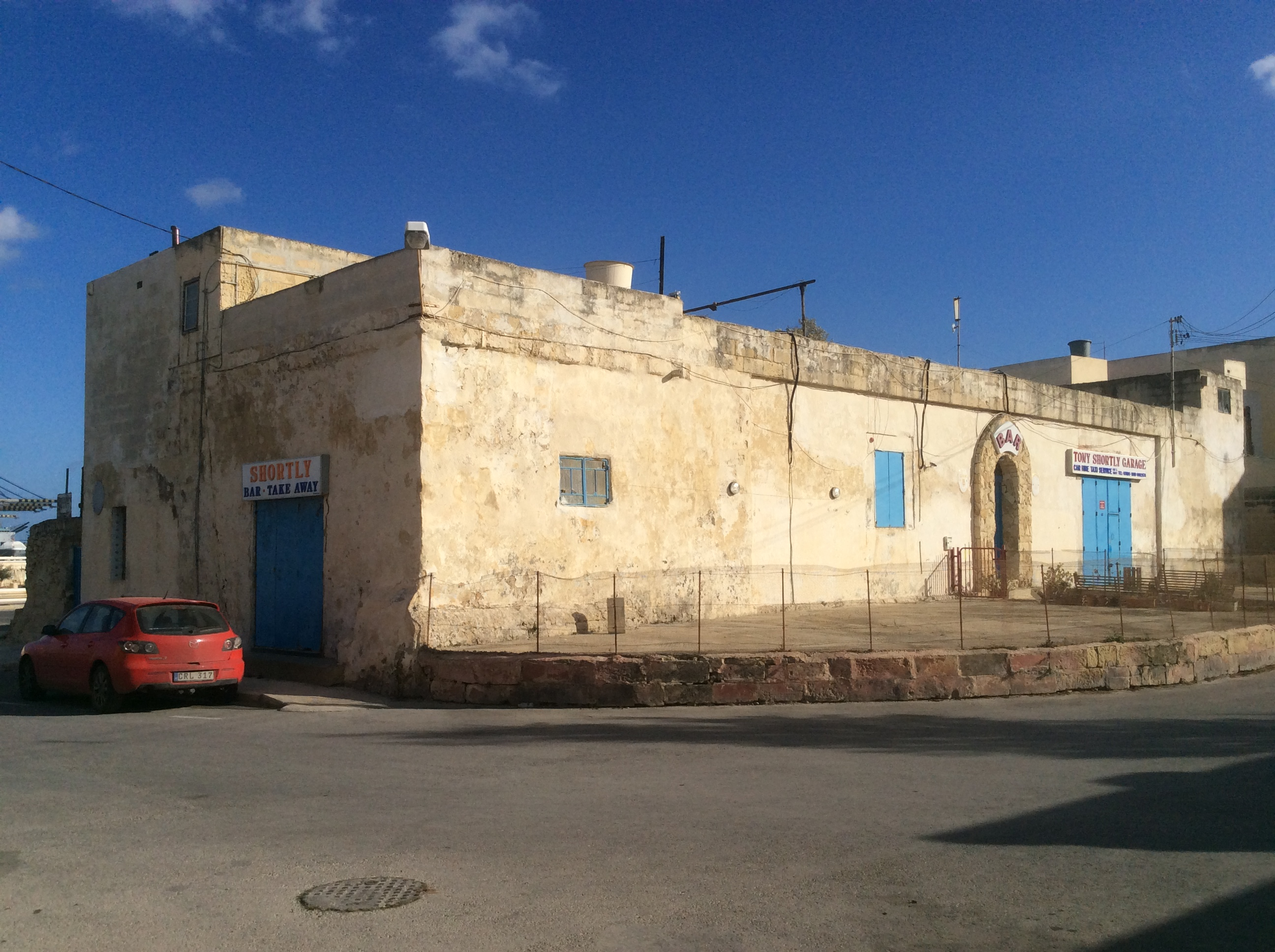 Pinto Battery building and bar